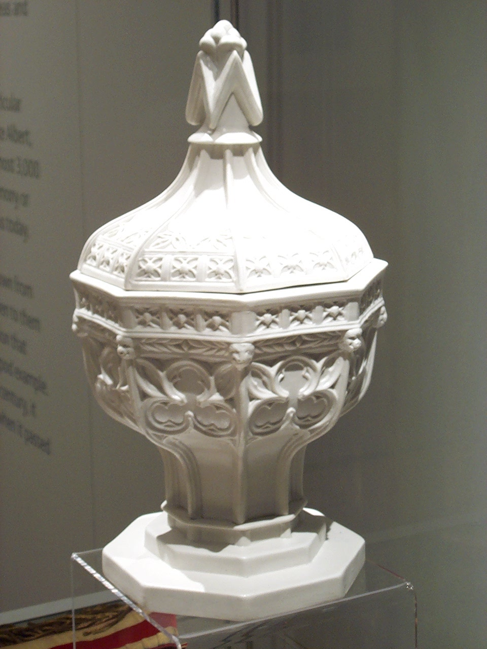 A small font, made by Minton or Wedgwood around 1840, inscribed St. Mary Mag. Oxford. It is from the collection of the Cecil Higgins Gallery and is on display at the Bedford Gallery, Bedford, Bedfordshire.